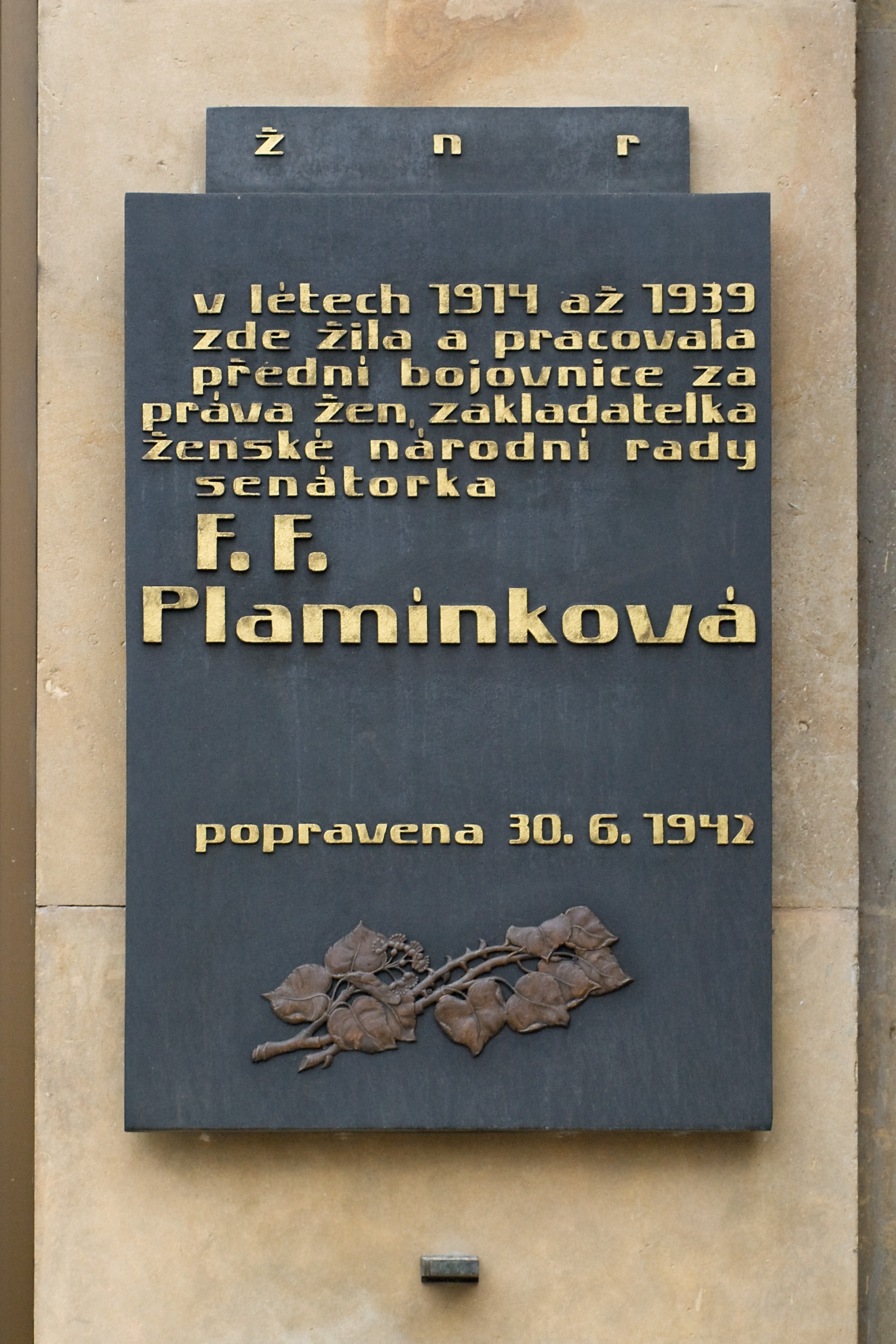 Plaque of Františka Plamínková—Czech journalist, politician (since 1925 member of the Senate of the National Assembly of the Czechoslovak Republic) and leader of a women’s rights movement (in 1923 founder of Czechoslovak chapter of International Council of Women)—on the house in Prague where she lived and worked in years 1914–1939, executed during Heydrichiade (Heydrich terror) on June 30, 1942